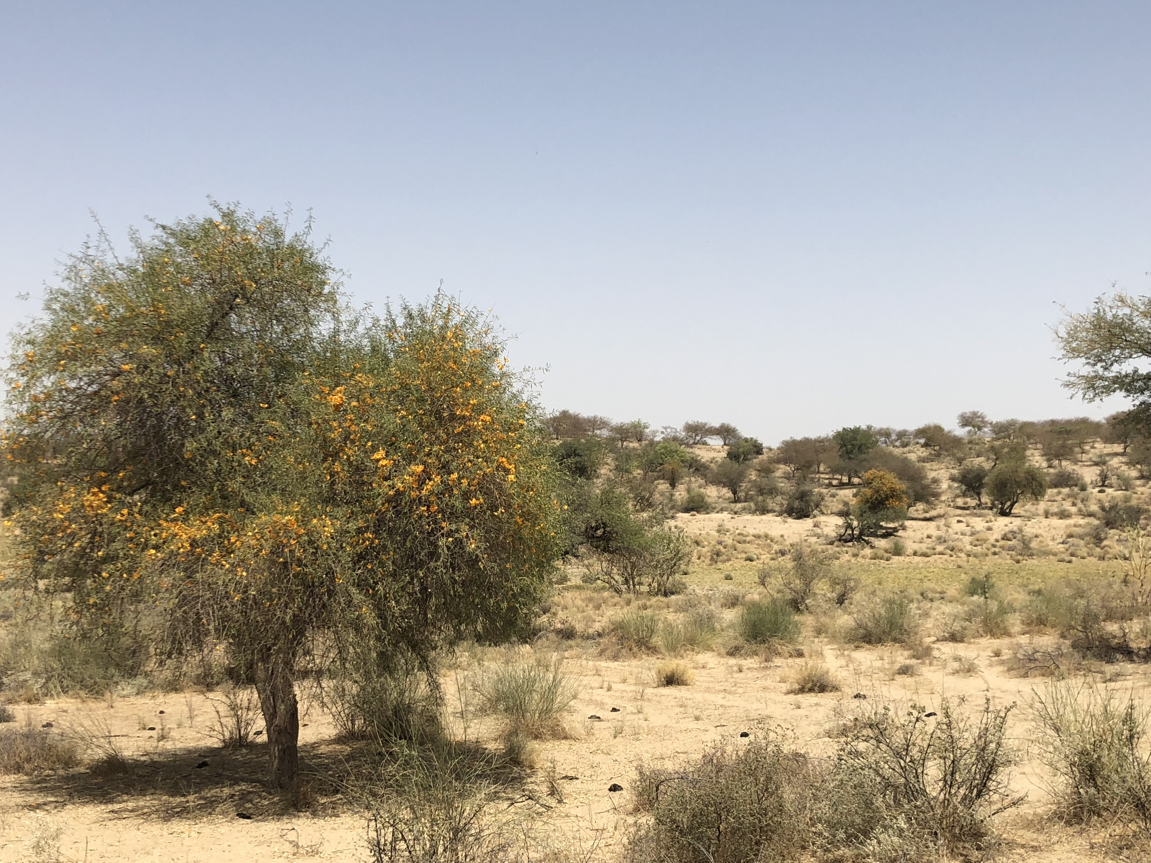 Flowers of Thar Desert of local tree